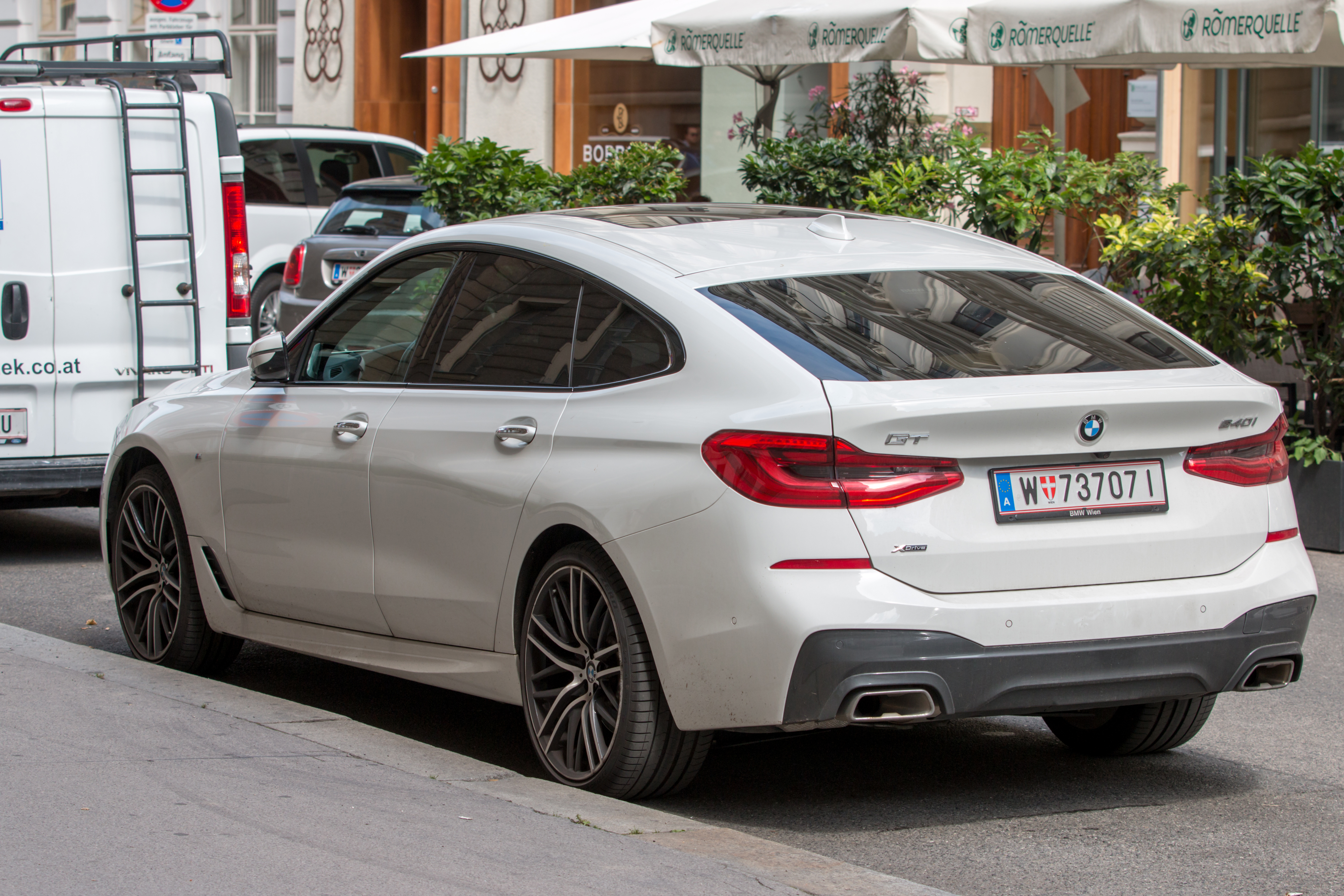 BMW G32 640i